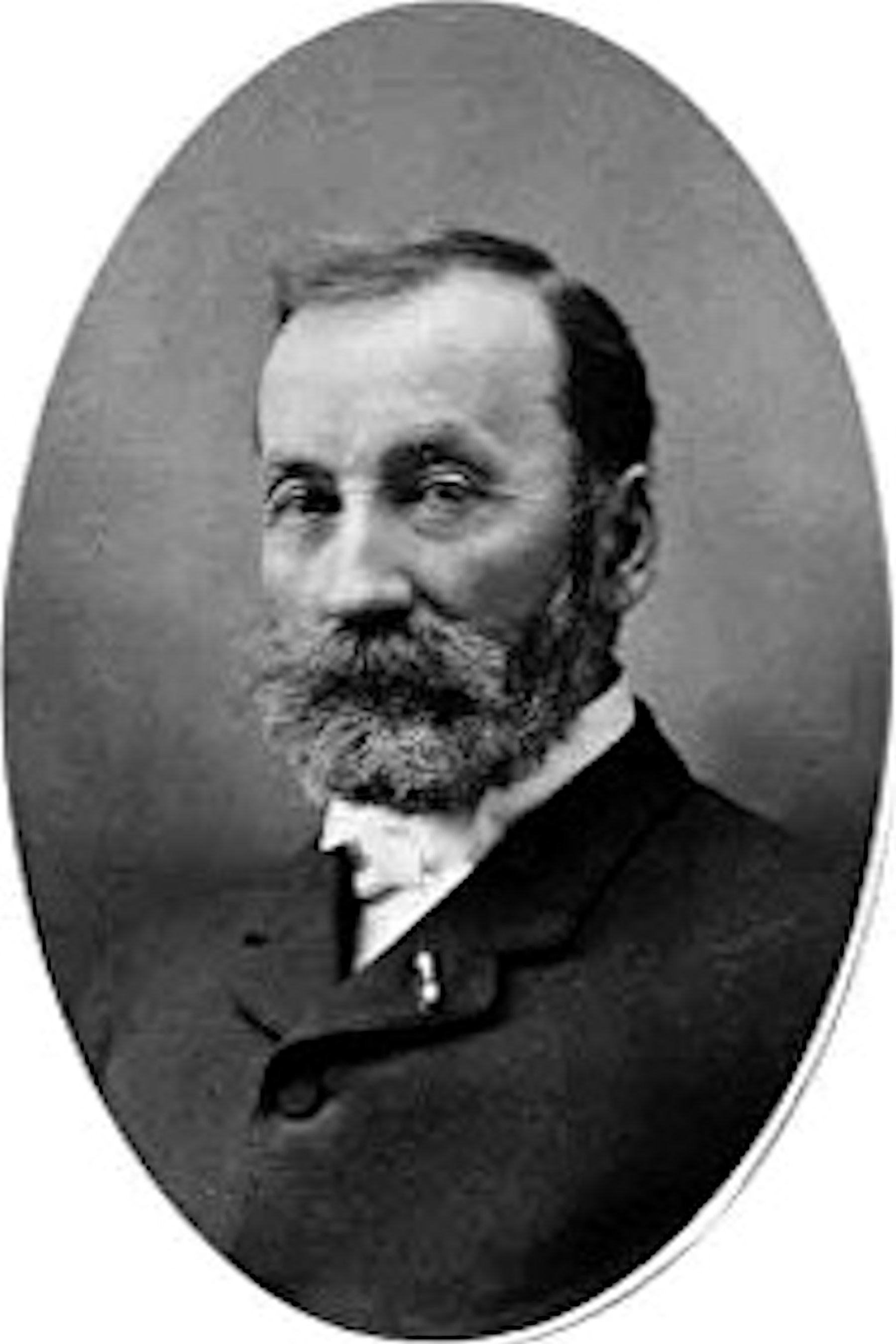 Medal of Honor winner